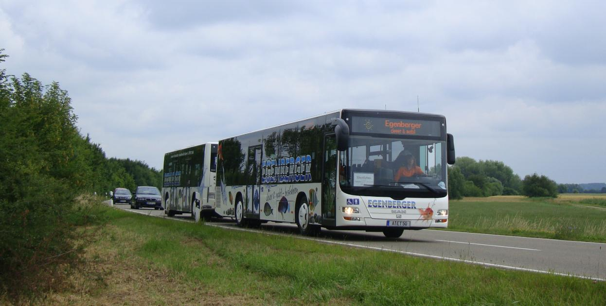 Maxi Train - MAN Lion's City bus (reg. A-ET 50) with Göppel G11 bus trailer (reg. A-ET 51) in Thierhaupten, Bavaria, Germany. Built 2009, Egenberger Reisen GmbH & Co. KG from Thierhaupten operator.